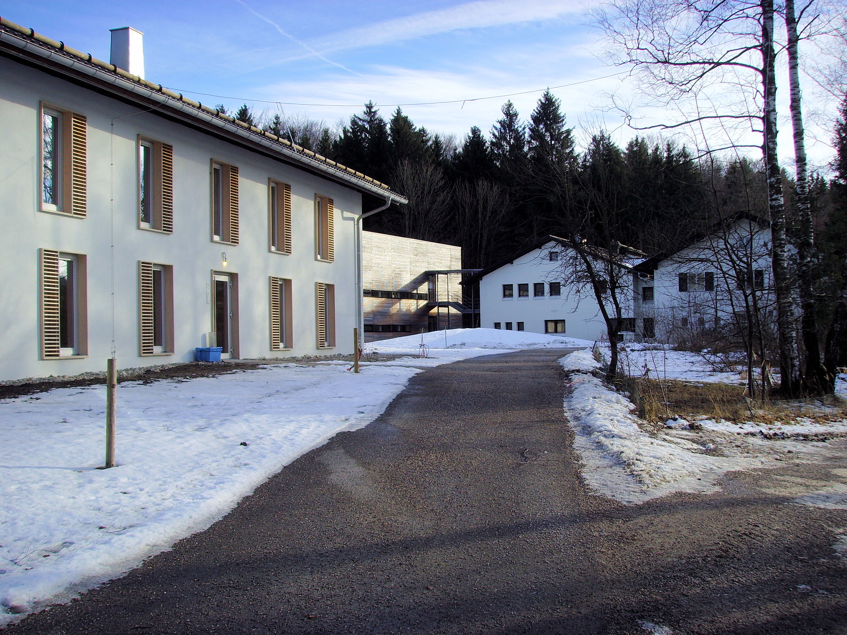 Max Planck Institute for Ornithology, Seewiesen (Bavaria, Germany), formerly known as Max Planck Institute für Behavioral Physiology